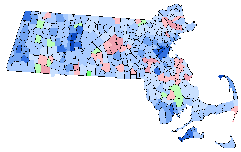 Massachusetts presidential election results by municipality, November 1992